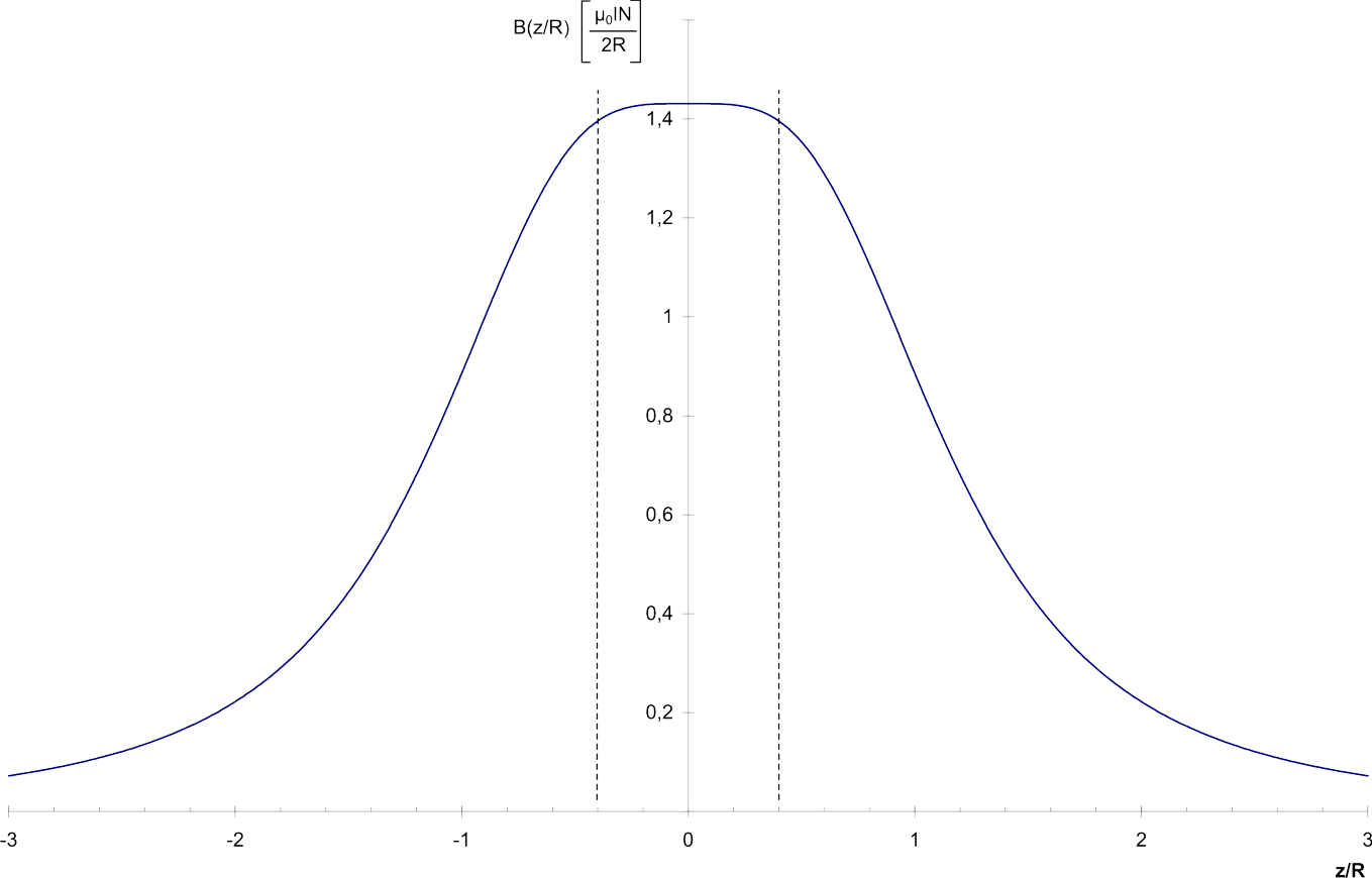 Magnetic field induction along Helmholtz coils (z axis is perpendicular to the surface of coils and z=0 is the point in the middle between the coils.